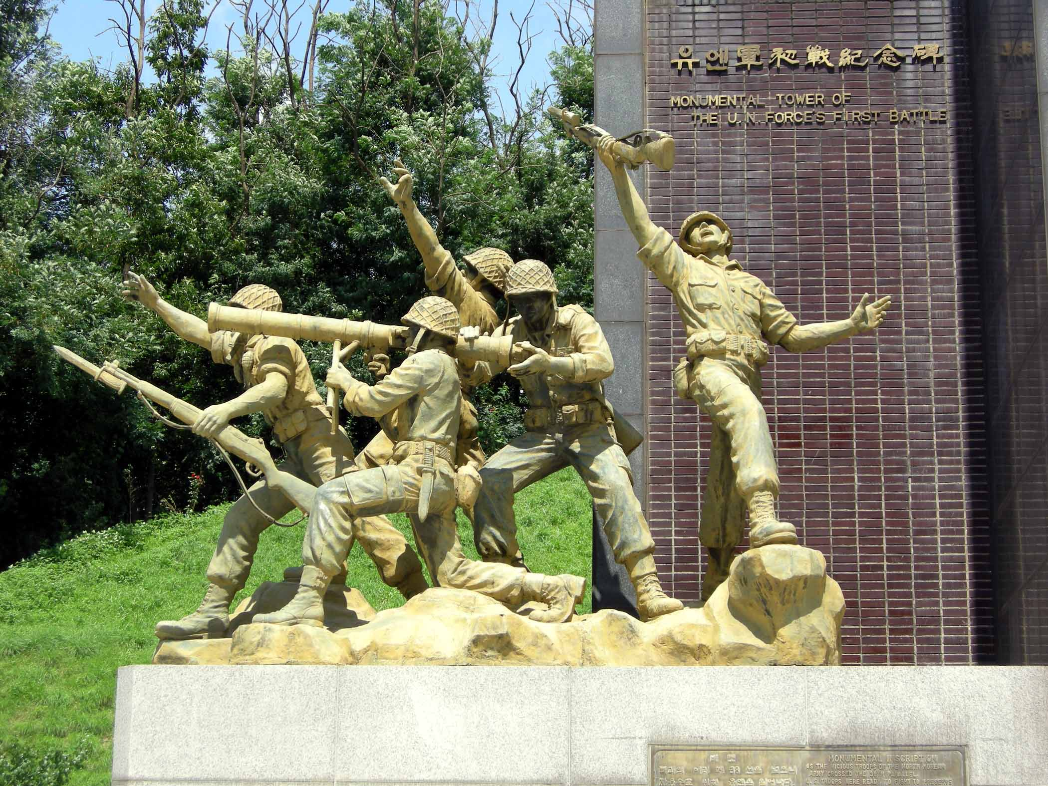 Just north of Osan city lies a monument honoring the men of Task Force Smith, the first U.S. forces to engage North Korean forces following the North’s invasion of the Republic of Korea on June 25, 1950.